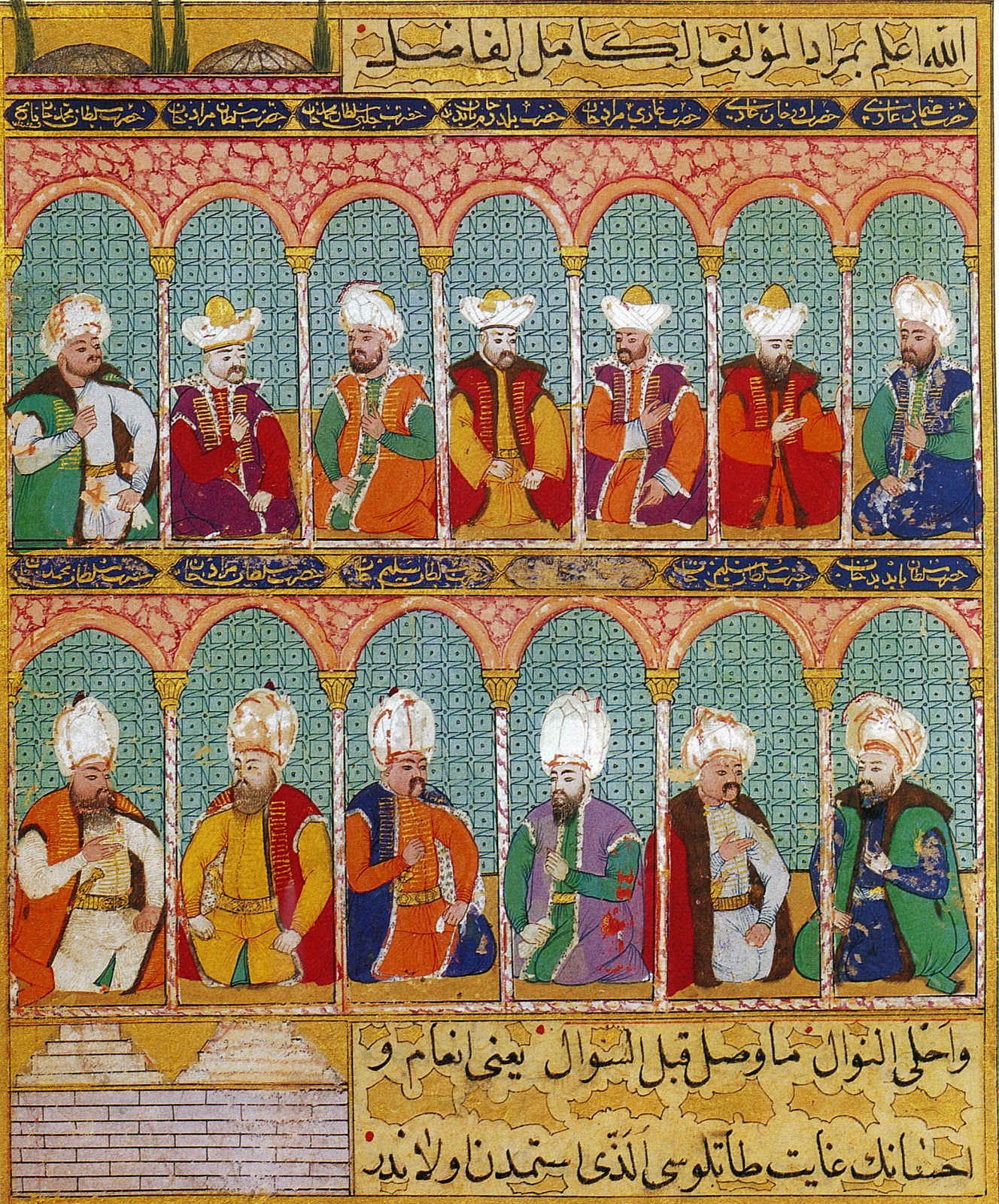 Ottoman Sultans